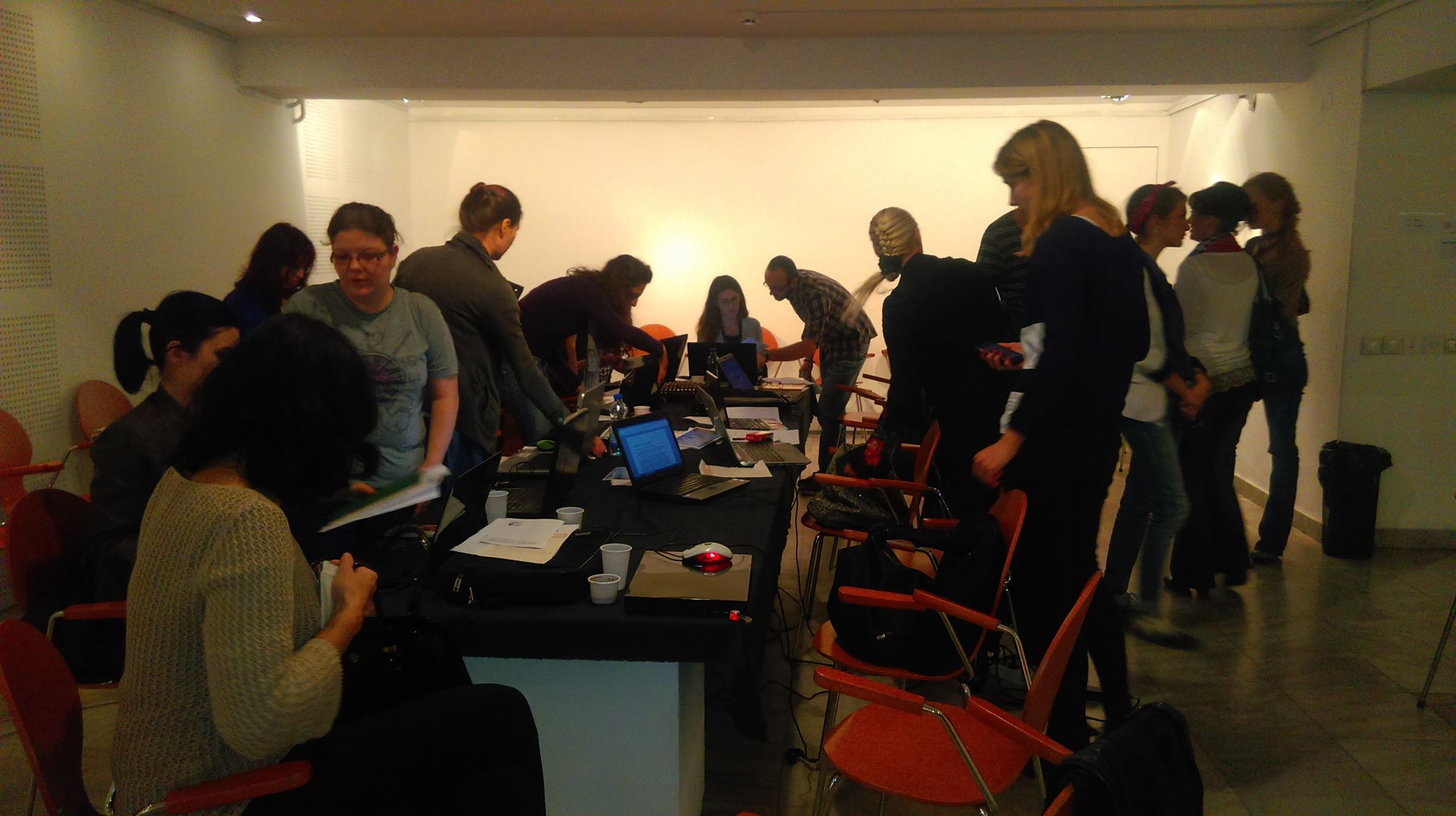 Fashion Edit-a-thon in Museum of Applied Arts, organized by Museum of Applied Arts, Europeana Fashion and Wikimedia Serbia in Belgrade.